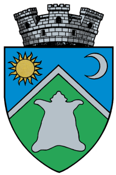 Coat of Arms of the town of Sovata, Mureş County, Romania